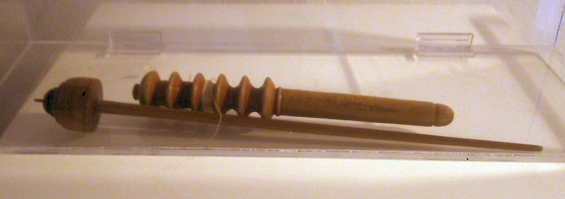 Tools used in kurar embroidery. This is traditional Bahrain embroidery, woven of gold, silwer and silk threads. Exhibit in Jasheer House, Muharraq, Bahrain.